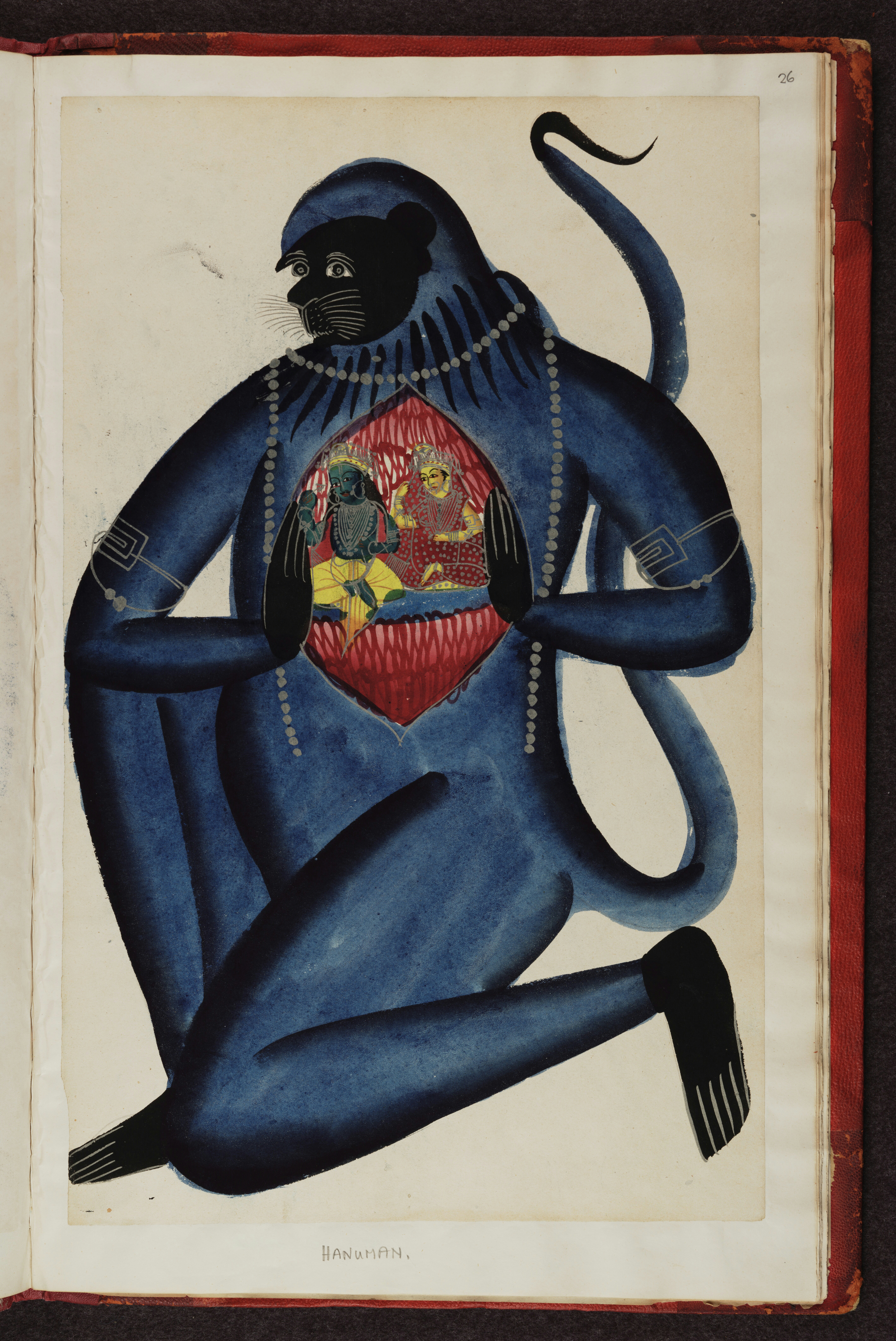 Hanuman. Digitized Kalighat painting from 19th century Calcutta, created as inexpensive souvenirs for Hindu pilgrims visiting the famous temple of Kali; The paintings are bound in a single volume, which includes eight hand-coloured woodcut prints (ff. 29-36). They were acquired by Sir Monier Monier-Williams for the Indian Institute Library and Museum at Oxford as a result of his third fund-raising trip to India in the winter of 1883-1884. During this trip, he secured the help of various regional authorities in obtaining local art and craft work and sending them to Oxford. The Kalighat paintings and prints are listed in Babu T.N. Mukherji's "List of Articles collected for the Oxford Institute under the instruction of T.W. Holderness Esq. and Dr. George Watt," Calcutta, 1884, which is bound in the "Original Lists" MS volume held in the Department of Eastern Art, Ashmolean Museum. Shelfmark: MS. Ind. Inst. Misc. 21 [Arch. O. a. 7]